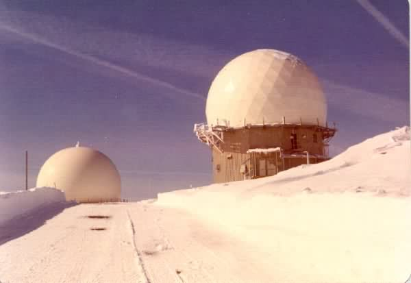 A view of Keno Air Force station in winter. The radar on the right is the AN/FPS-67 maintained by the FAA, and the radar on the left is the AN/FPS-6A. This is looking due west from the road which leads to the GATR radio site.